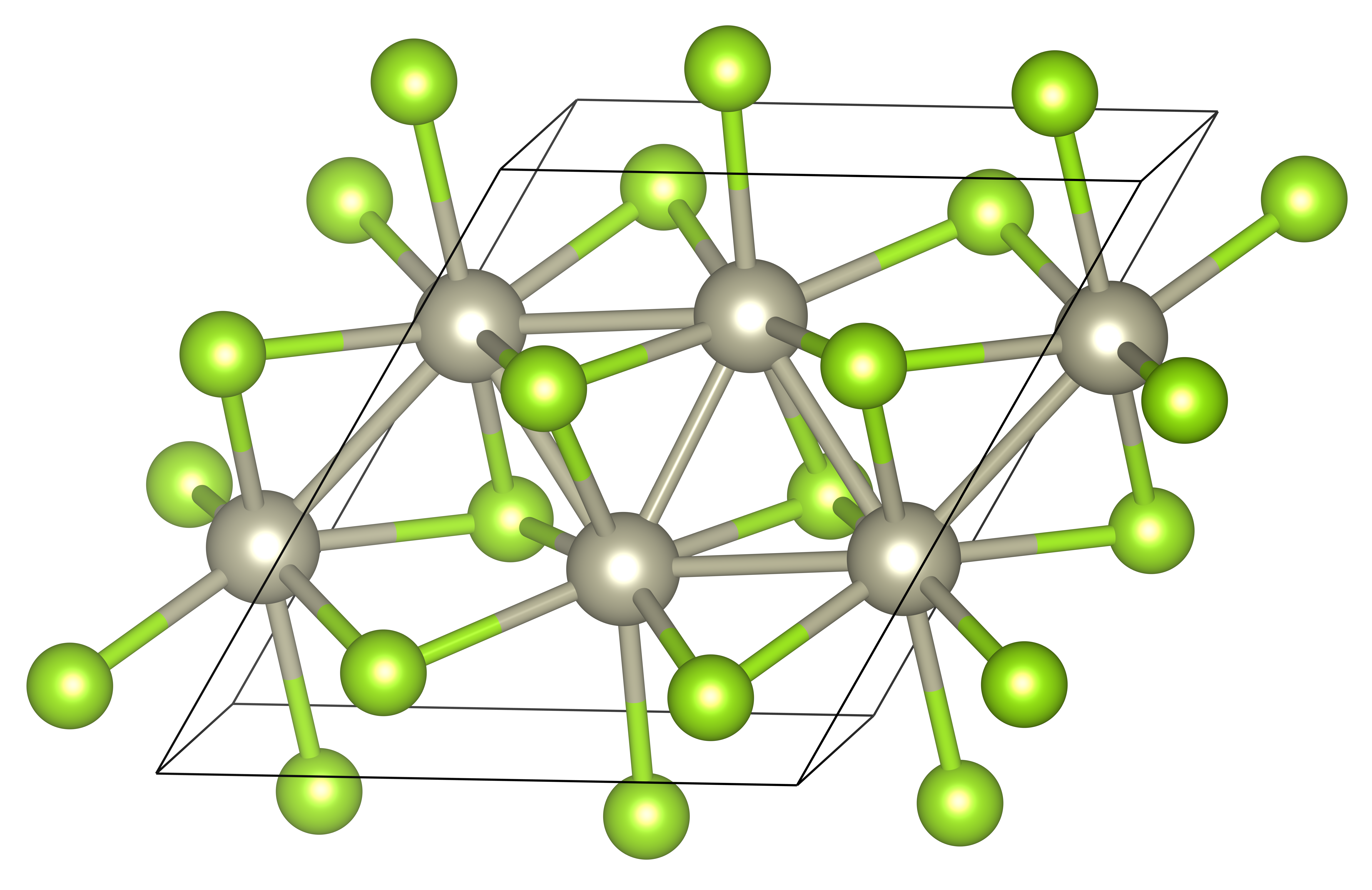 Unit cell of rhenium diselenide. Created with VESTA. Source of the crystal structure